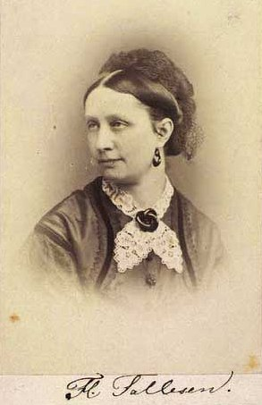 Amanda Flora Mathilde Fallesen, née Thomsen (1832-1900), Danish theatre actress